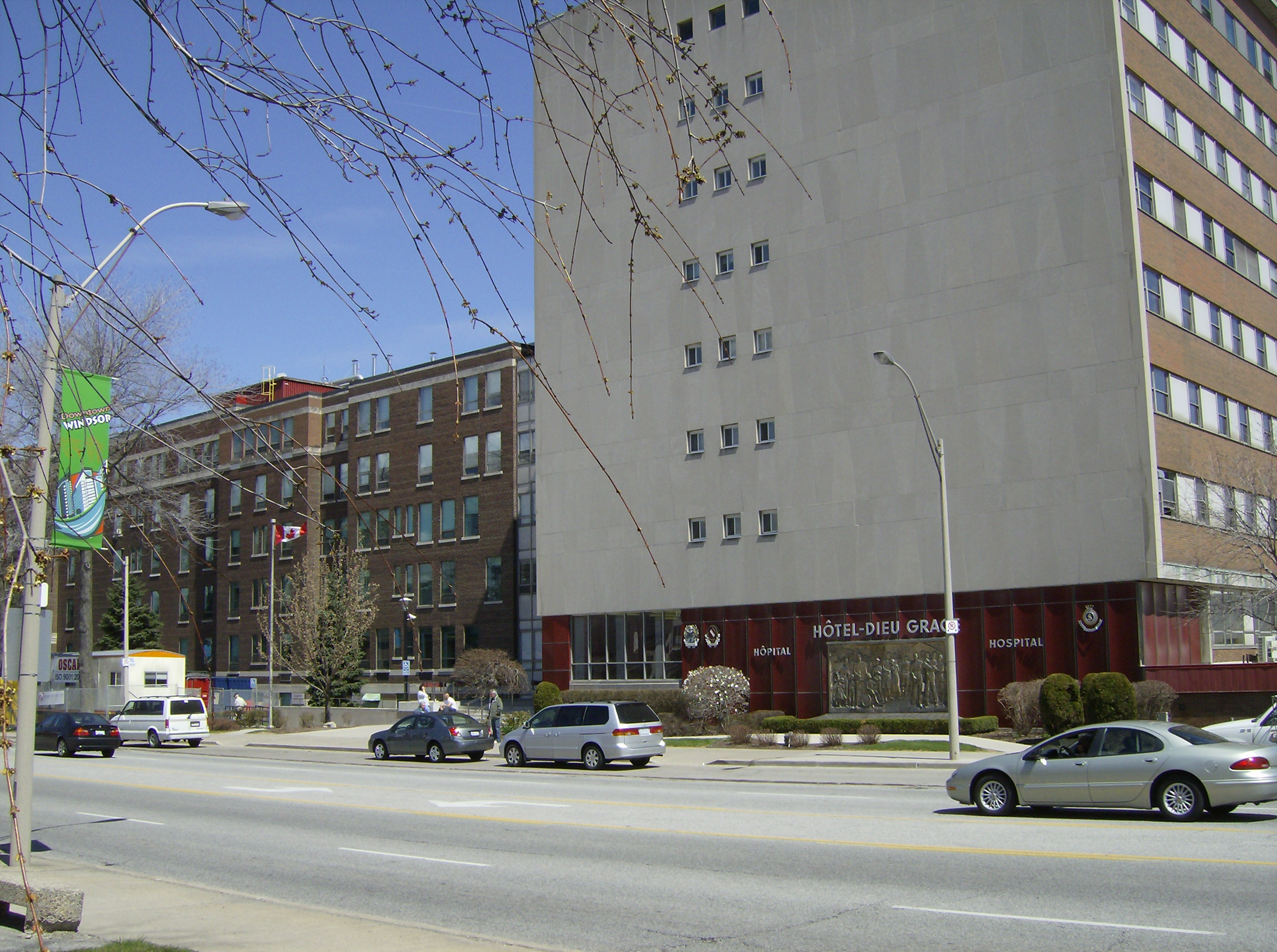 One of two main hospitals in Windsor; Hotel Dieu Grace